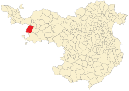 Gombrèn